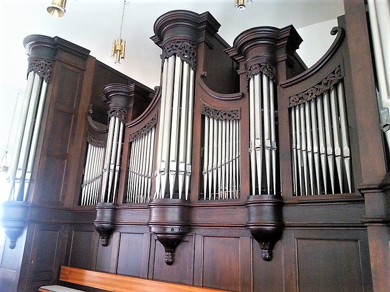 Interior of Allerheiligenkirche (Wadern)